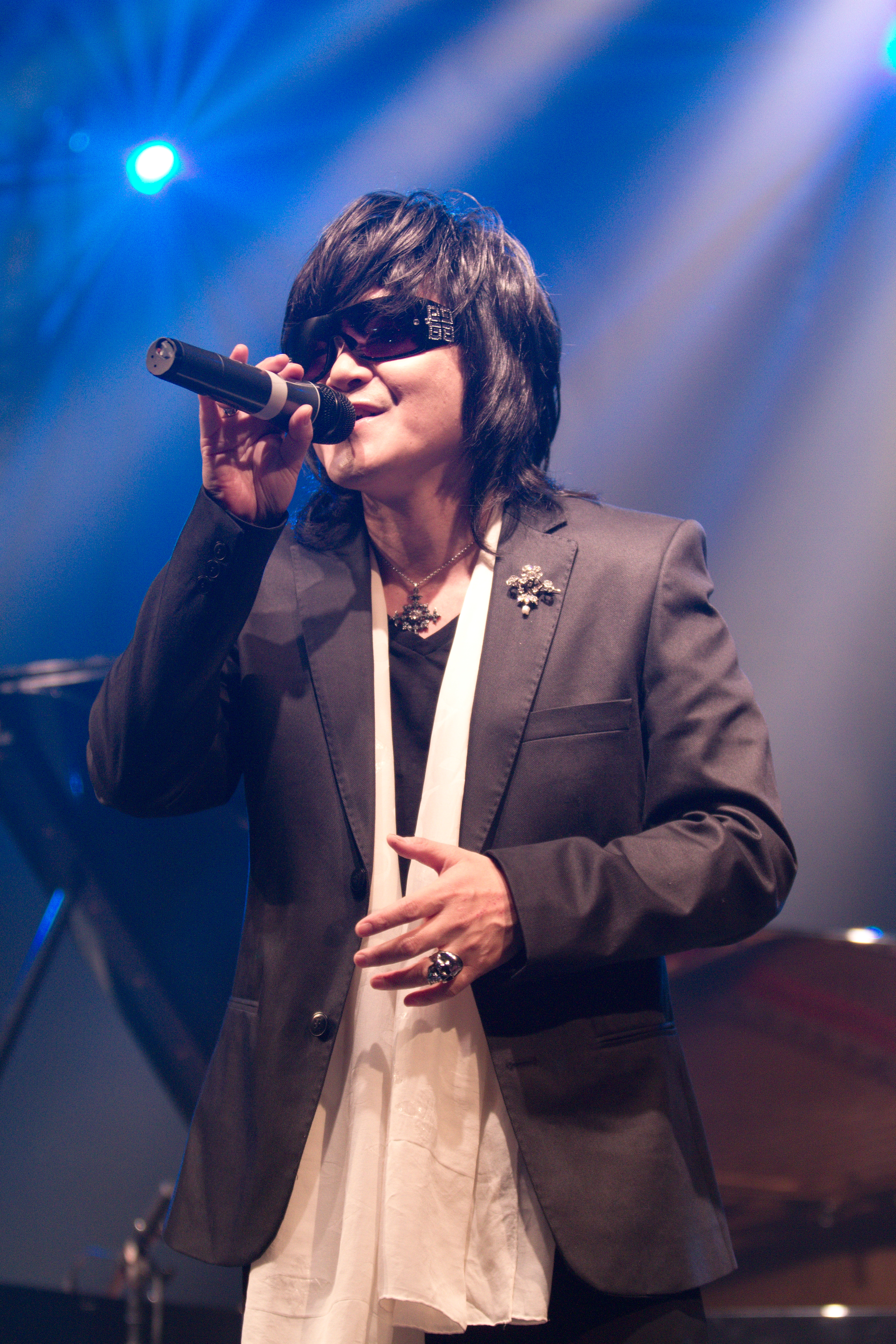 Toshi and Yoshiki, from X Japan, duets at Japan Expo 2010 (Paris, France).